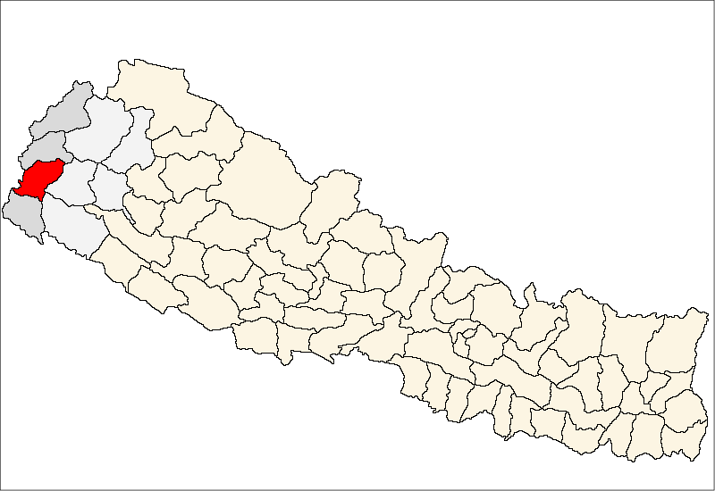 FrenchCarte de localisation dudistrict de Dadeldhura(wp-FR),au Népal (wp-FR).EnglishLocation map ofDadeldhura District(wp-EN),in Nepal (wp-EN).